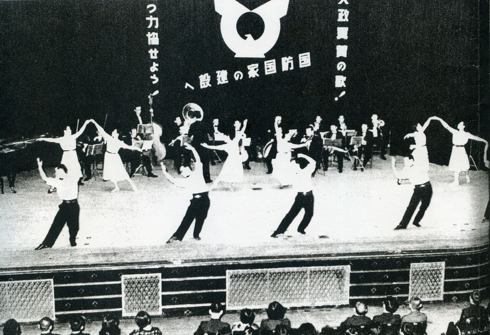 Announcement ceremony of "Taisei-yokusan no Uta"